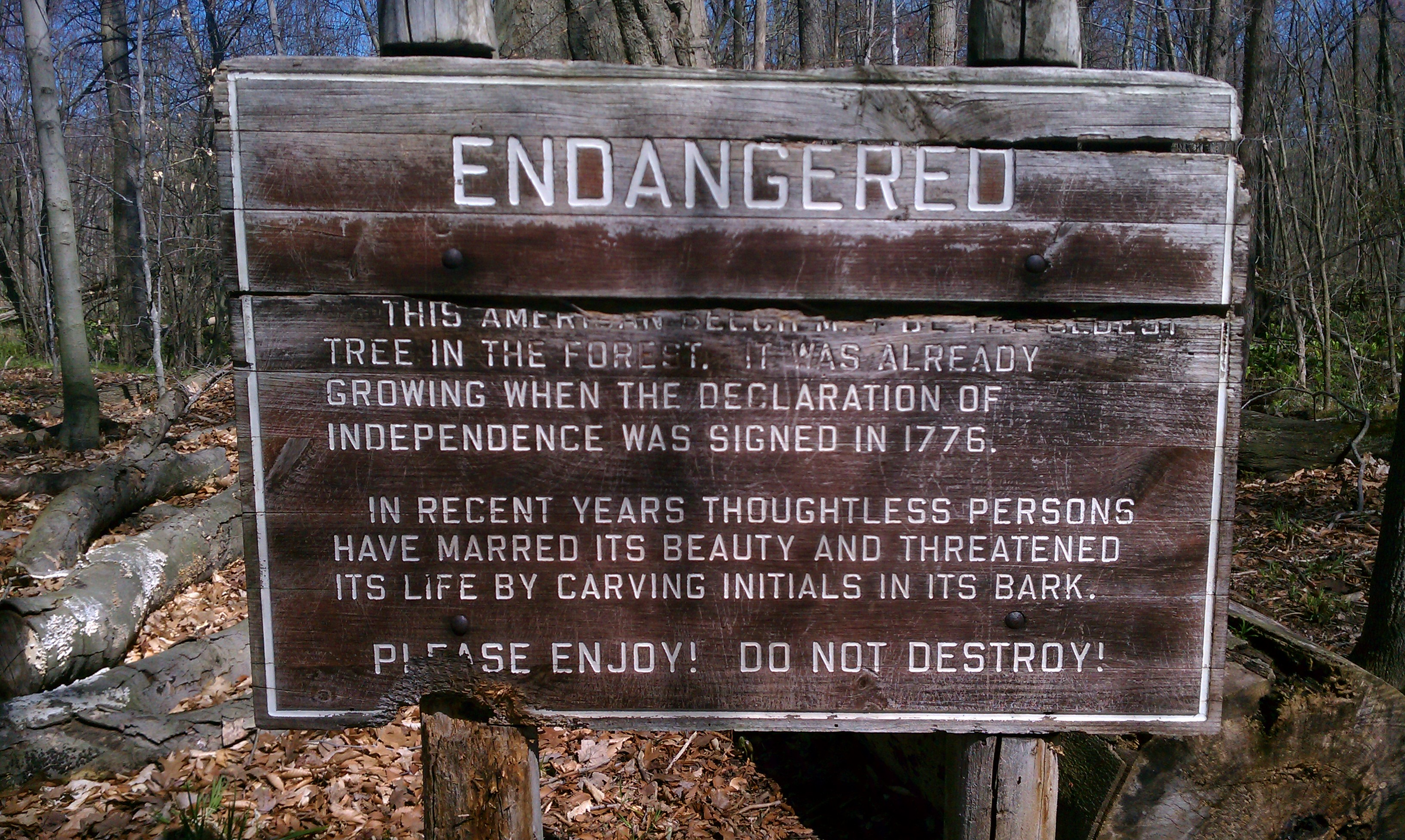 Sign reads: "ENDANGERED This American Beech may be the oldest tree in the forest. It was already growing when the Declaration of Independence was signed in 1776. In recent years thoughtless persons have marred its beauty and threatened its life by carving initials in its bark. Please enjoy! Do not destroy!" See File:Waterloo 635.jpg for the tree marked by this sign.